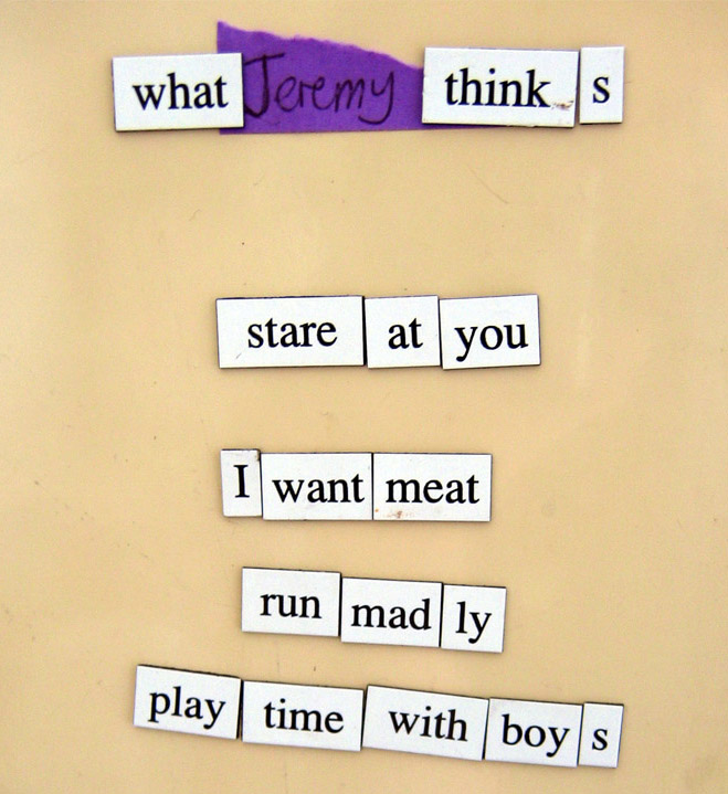 A poem made by Magnetic Poetry pieces. This poem was about my flatmate's cat, Jeremy. See the earlier version for the full, not-appropriate-for-Wikipedia version.